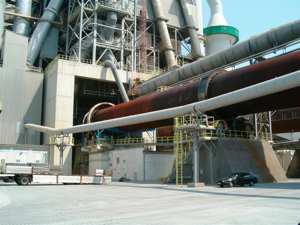 Cement kiln. Location: Gorazdze Cement Plant near Chorula (Poland)